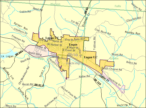 Map of Logan, a city in Hocking County, Ohio, United States, with its boundaries at the time of the 2000 census.